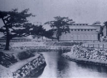 1897-1902. Waraku-en Aquarium , the oldest aquarium in Japan. Kobe-city.